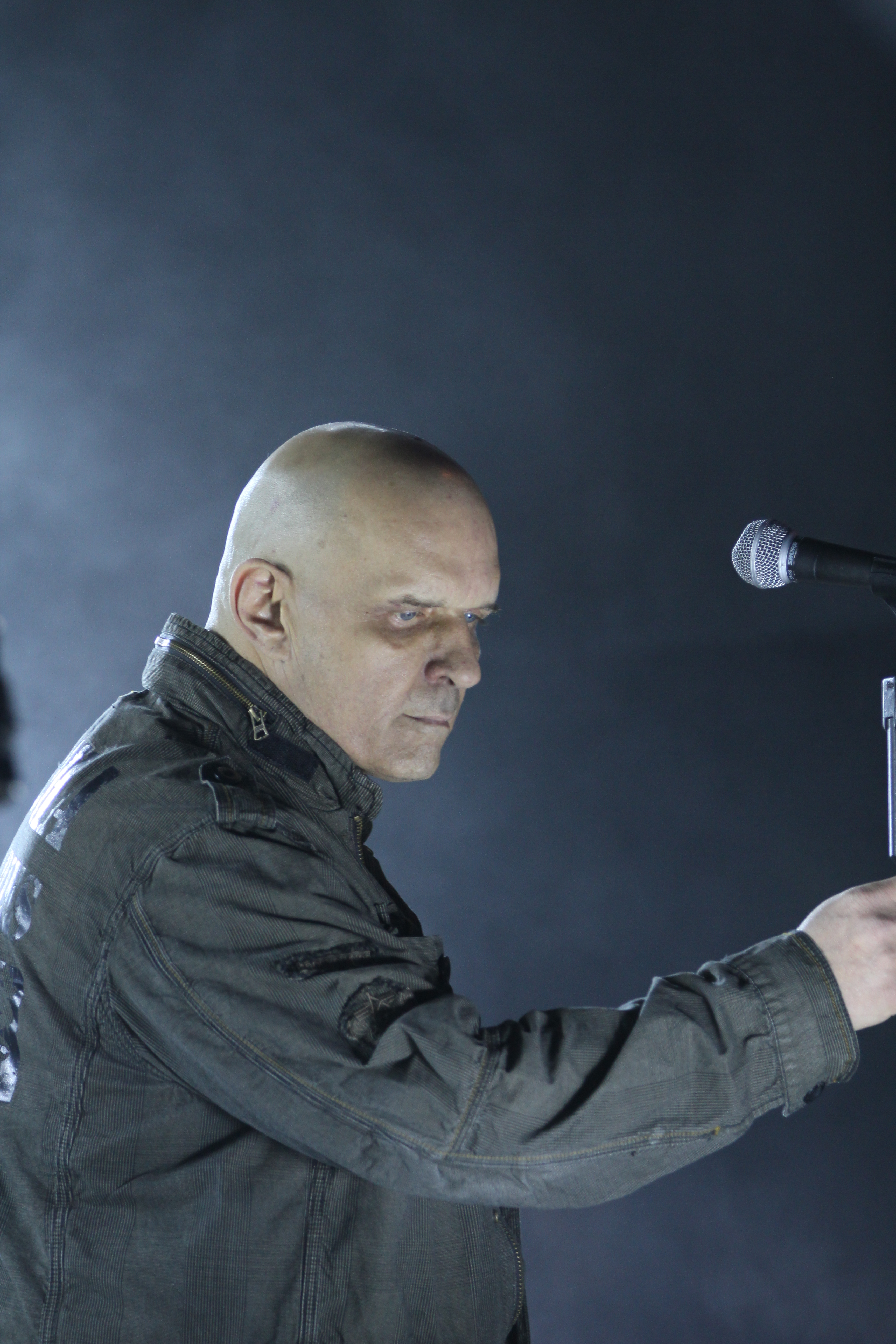 The German dark wave project 18 Summers at the Nocturnal Culture Night 9 2014 in Deutzen/Germany